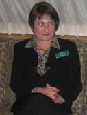 NH St. Senators, Dave Gottesman, Iris Estabrook, Sylvia Larsen, (Gov Mark Warner), Martha Fuller-Clark, Lou D'Allesandro.